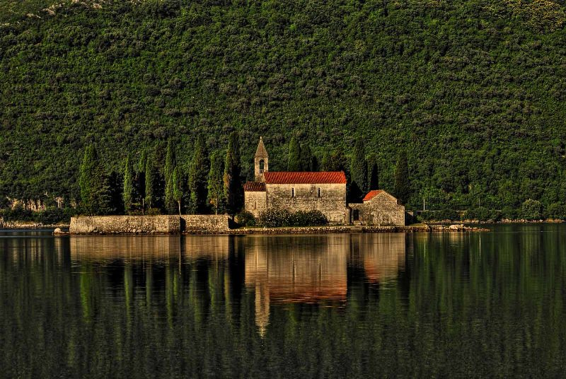 Monastry Saint George view from Perast.